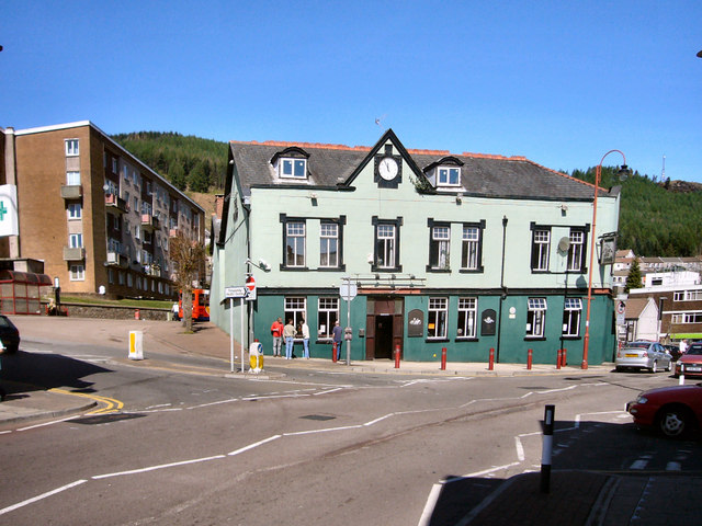 Tonypandy Original description: Tonypandy Square Site of the riots 1926 Strike,where the strikers clashed with the troops sent by Winston Churchill.